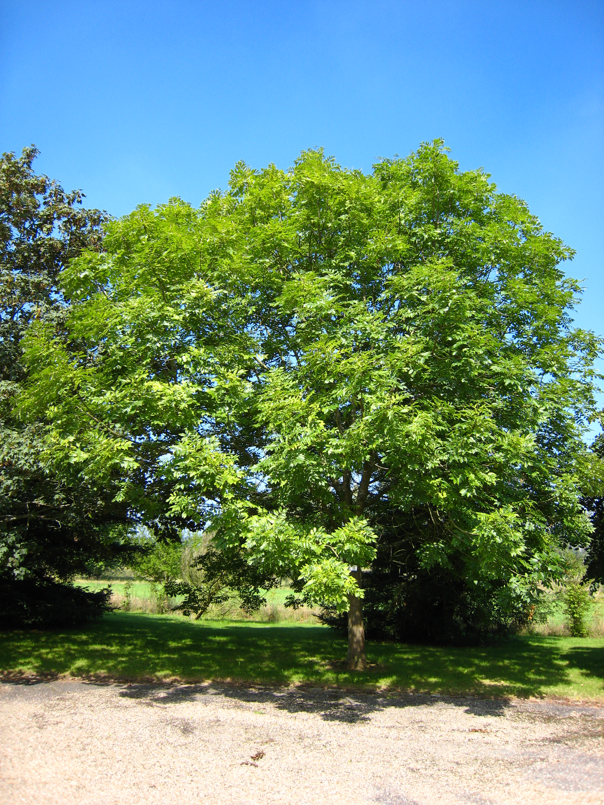 Fraxinus excelsior in the Arboretum de Chèvreloup in Rocquencourt